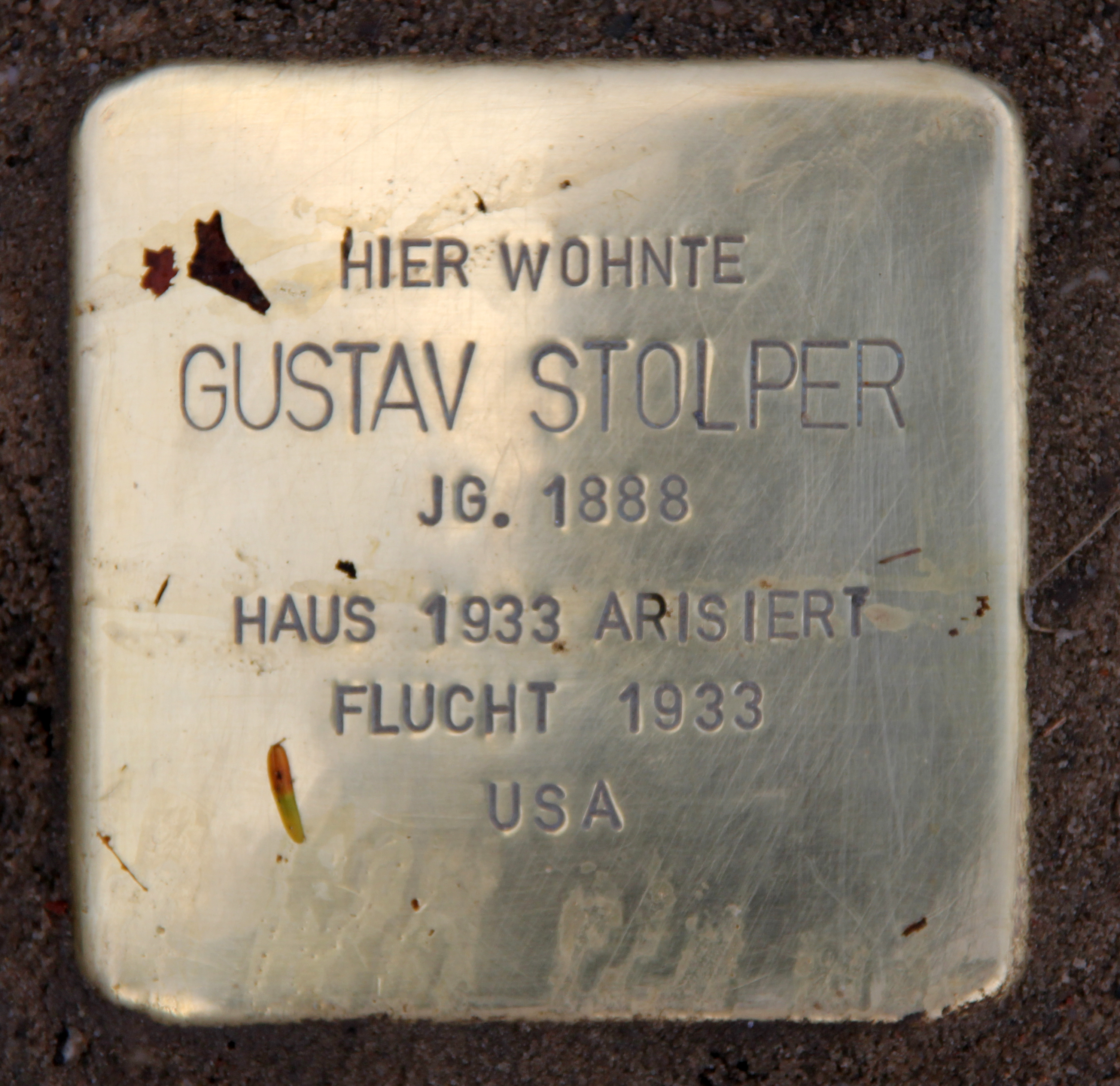 "Stolperstein" (stumbling block), Gustav Stolper, Englerallee 25, Berlin-Dahlem, Germany